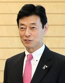 Former Prime Minister of Japan Yoshirō Mori, current Prime Minister Shinzō Abe and Deputy Chief Cabinet Secretary Yasutoshi Nishimura.